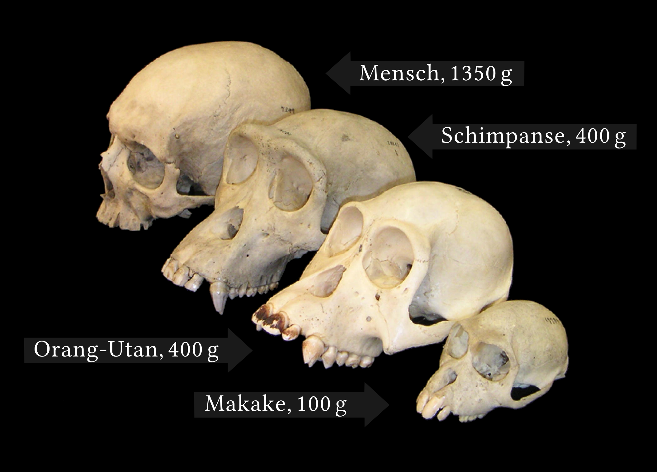 Primate skulls provided courtesy of the Museum of Comparative Zoology, Harvard University. From left to right with average brain weigth: Human (1350g), Chimpanzee (400g), Orangutan (400g) and Macaque (100g). German captions.